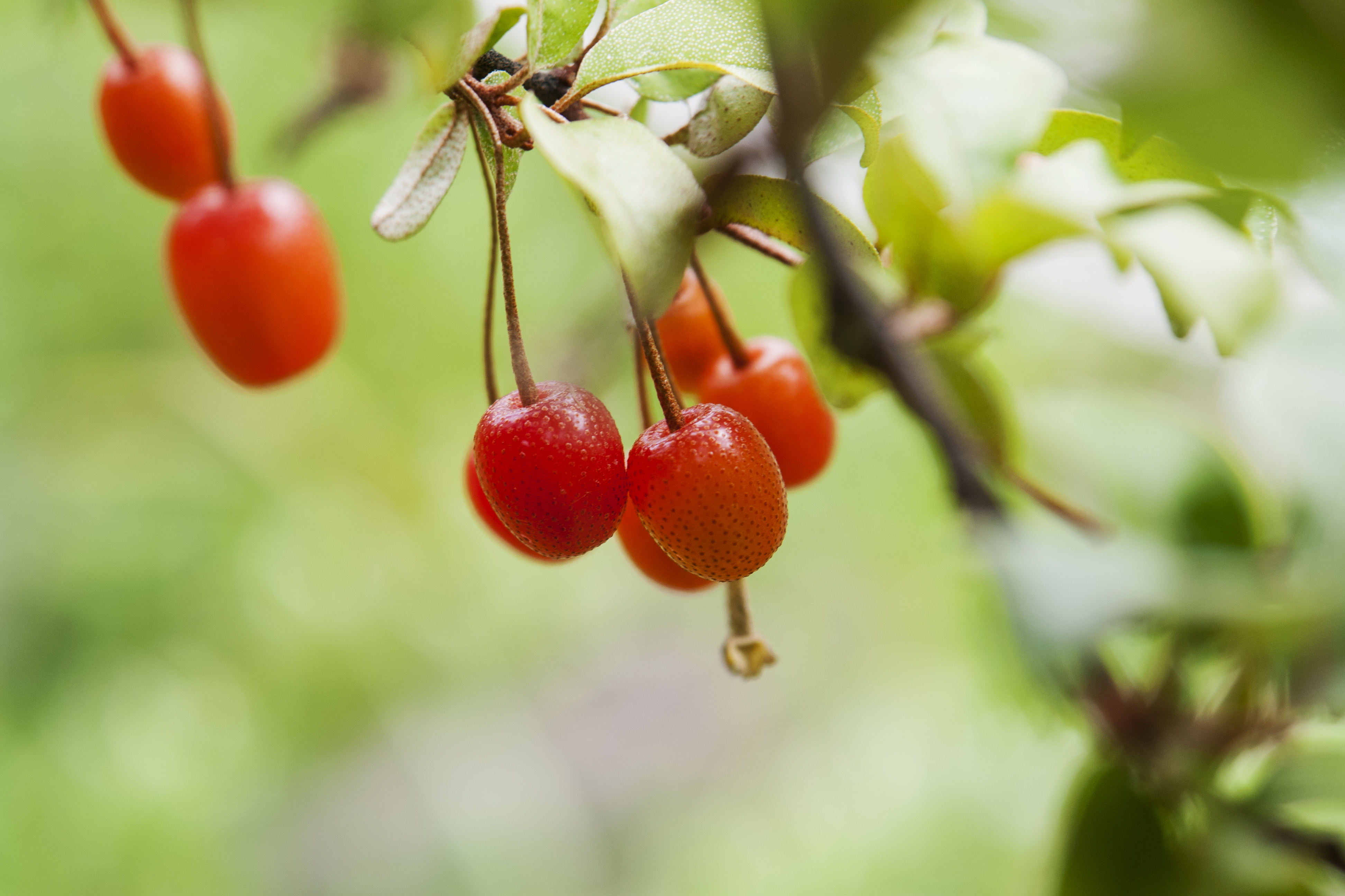 Elaeagnus umbellata – Japanese silverberry